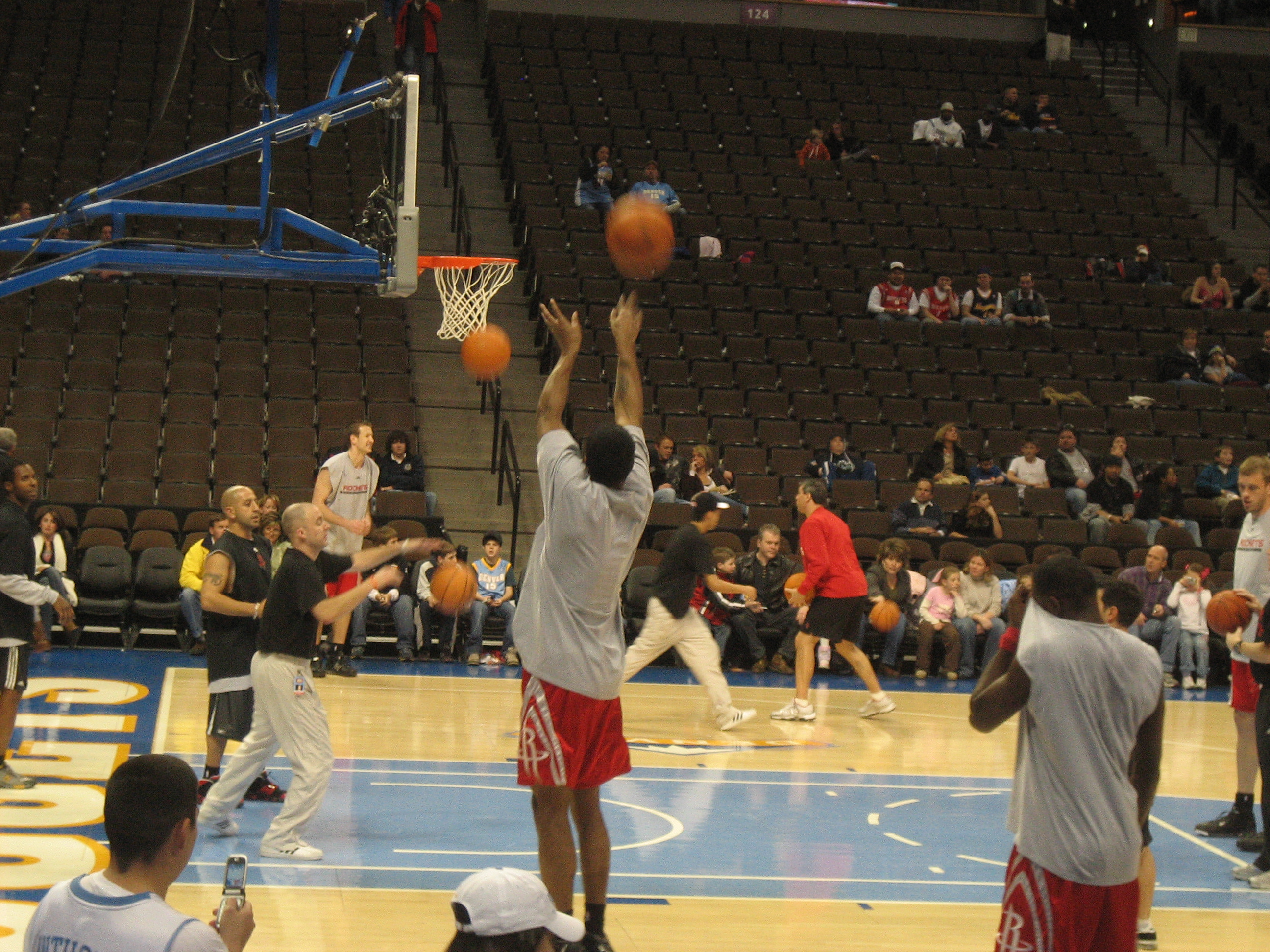 Luther Head warmup